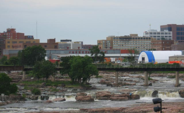 Showing upper portion of the falls of the Big Sioux River, with downtown Sioux Falls, South Dakota in background. Taken looking south from the observation tower in Falls Park by Jon Platek, 9 June 2007.